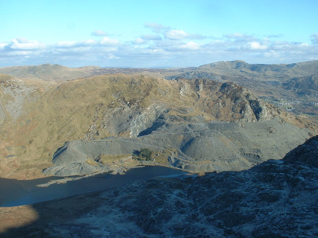 The slopes of Foel Ddu Looking down on Llyn Cwmorthin and Cwmorthin Quarry.